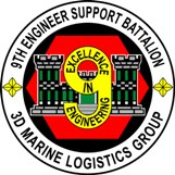 Logo for 9th Engineer Support Battalion